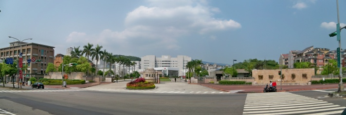 The National Defense Medical Center in Neihu, Taipei, Taiwan.